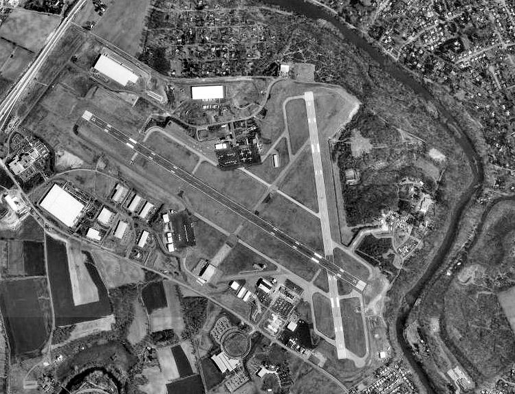 USGS orthophoto of Reading Airport, Pennsylvania